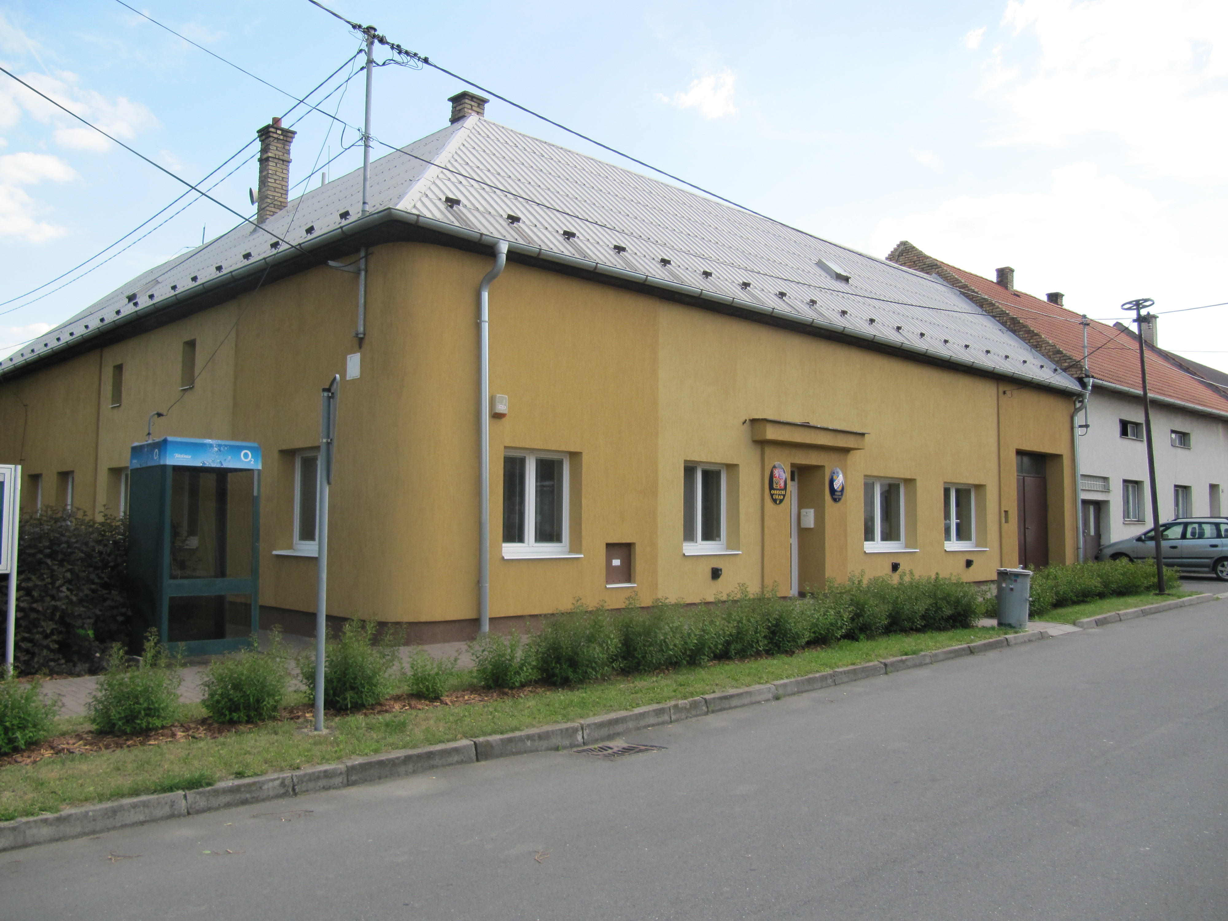 Střížovice in Kroměříž District, Czech Republic. Municipal office.